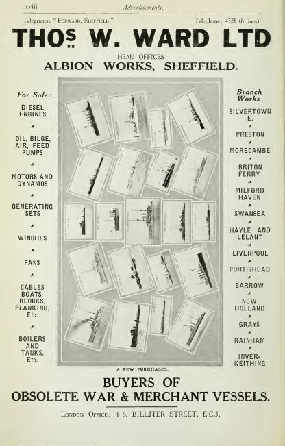 Advertisement for Thomas W Ward Ltd, shipbreakers.